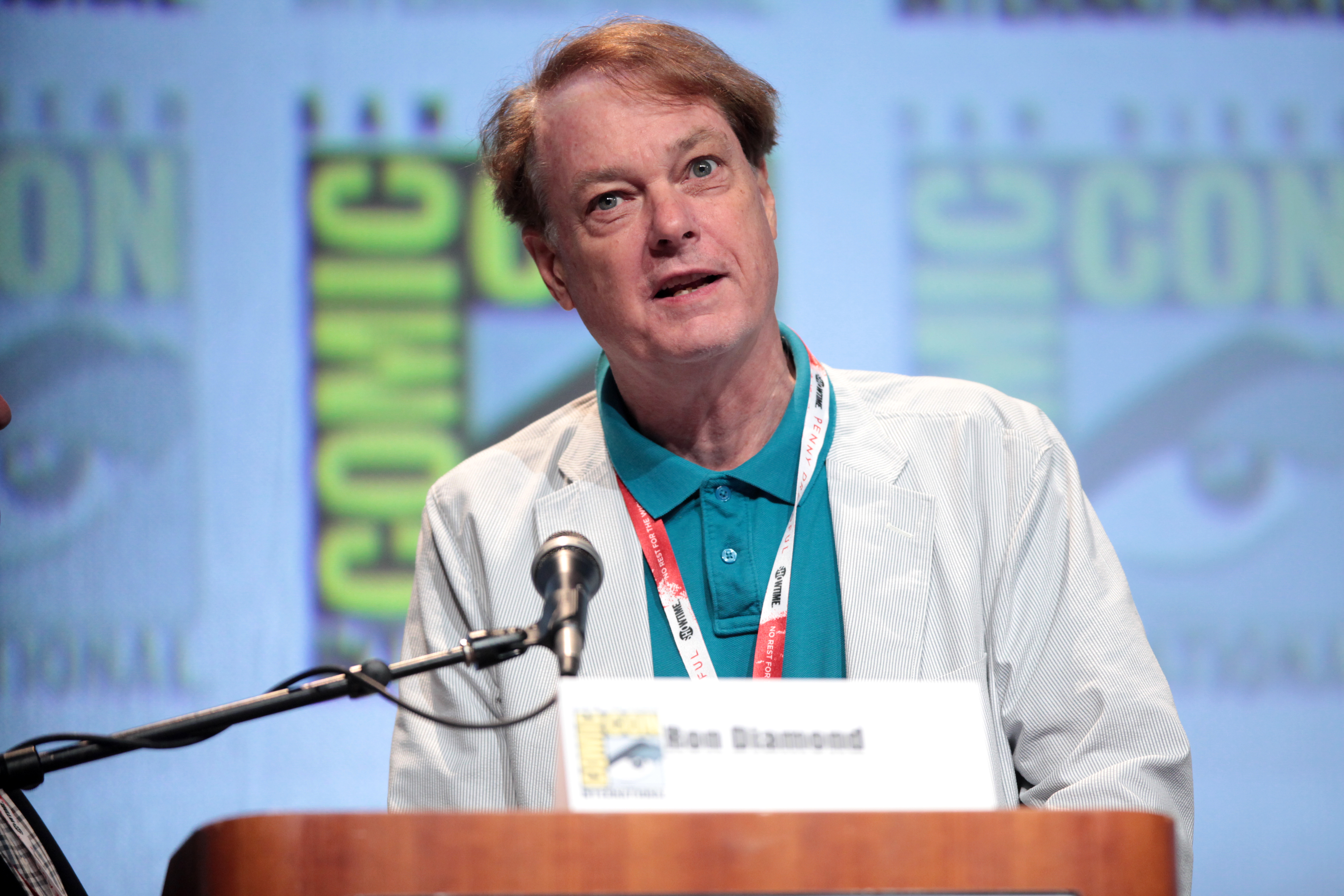 Bill Plympton speaking at the 2015 San Diego Comic Con International, for "The 16th Annual Animation Show of Shows", at the San Diego Convention Center in San Diego, California.